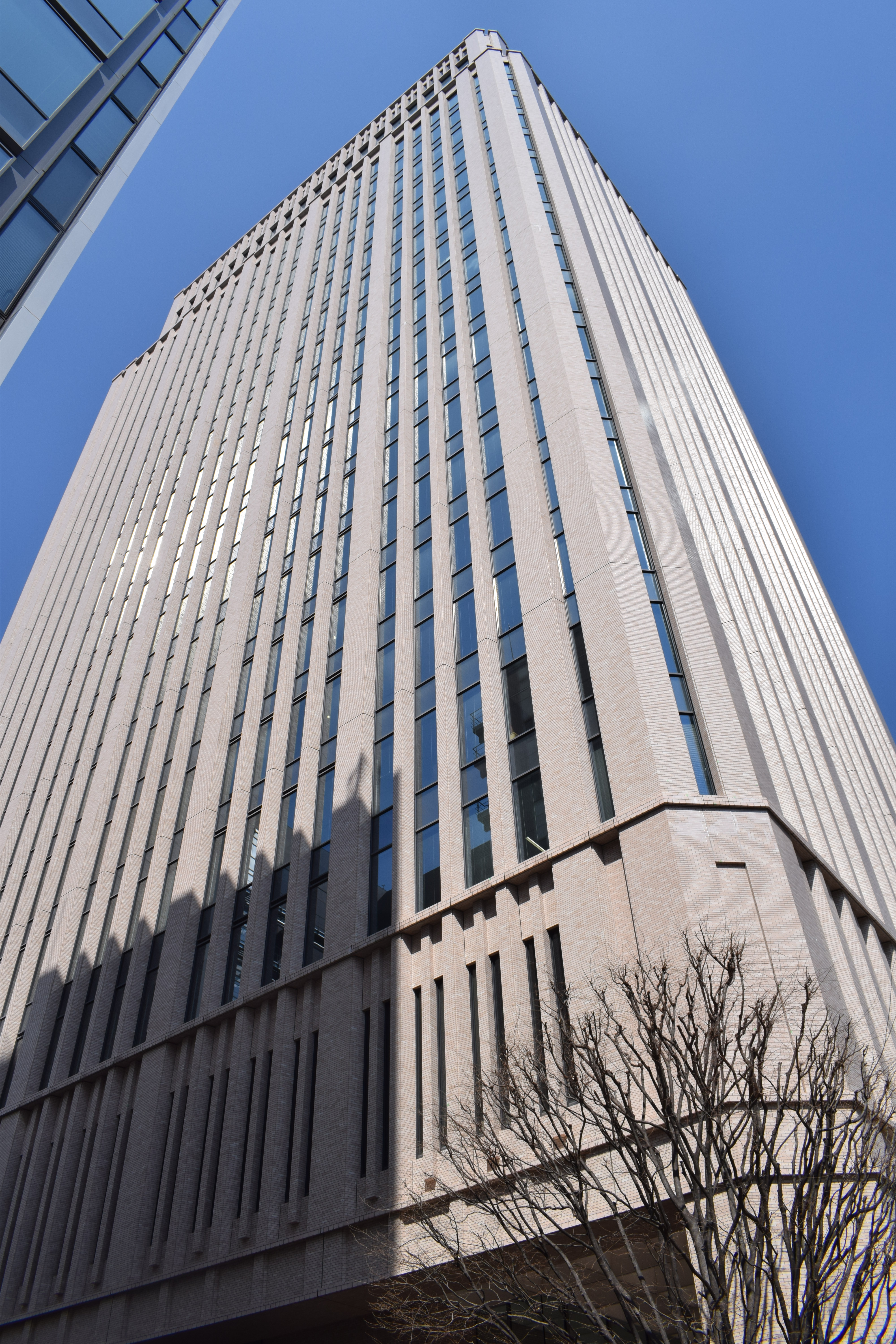 Daido Seimei Kasumigaseki Building, one of the skyscrapers in Tokyo